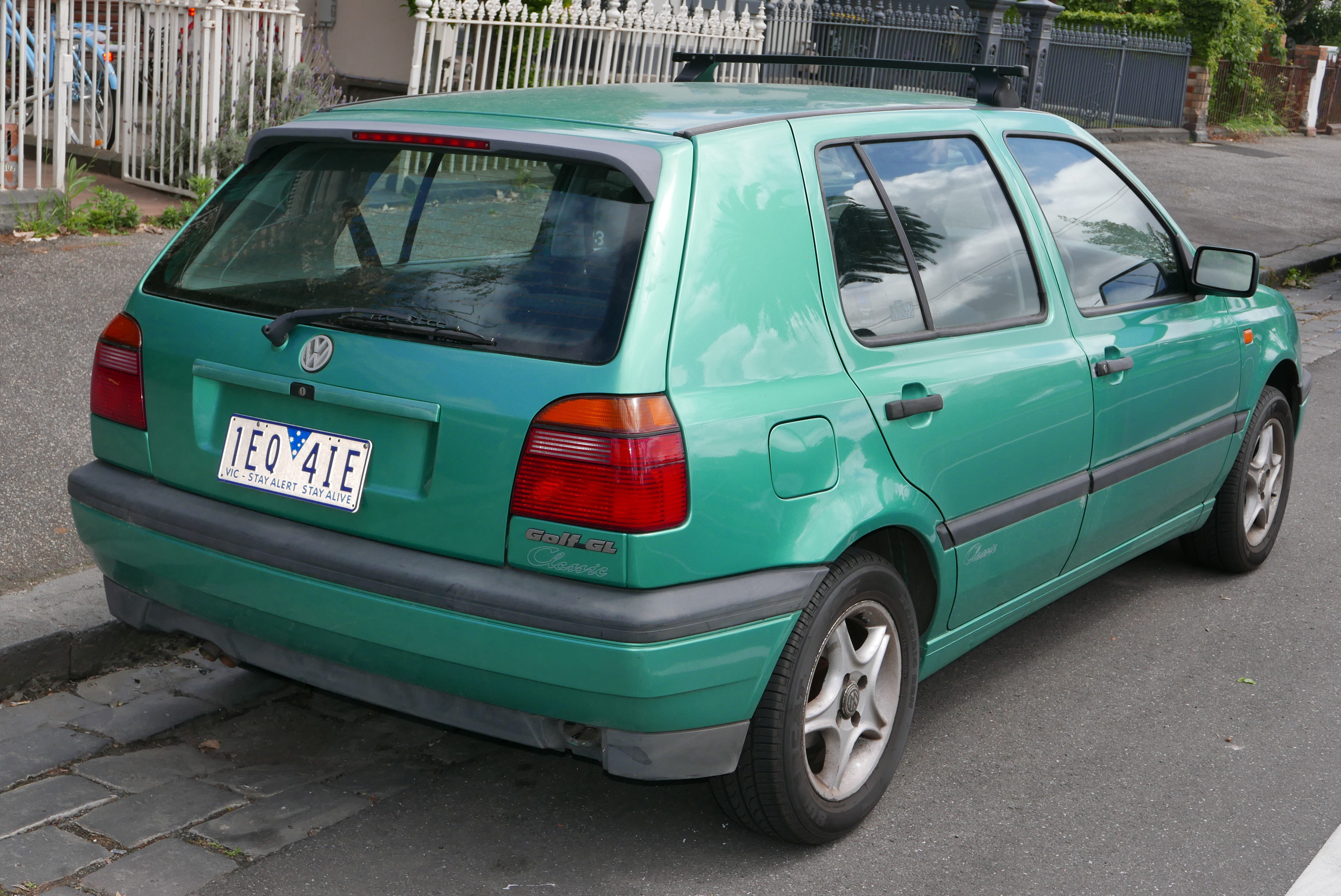 1996 Volkswagen Golf (1H) GL Classic 5-door hatchback. Photographed in Carlton North, Victoria, Australia. Vehicle registration enquiry results Jurisdiction Victoria Registration 1EQ4IE Chassis code WVWZZZ1HZSW478563 Engine code ADY071455 Compliance date 1996-11 Year of manufacture 1996